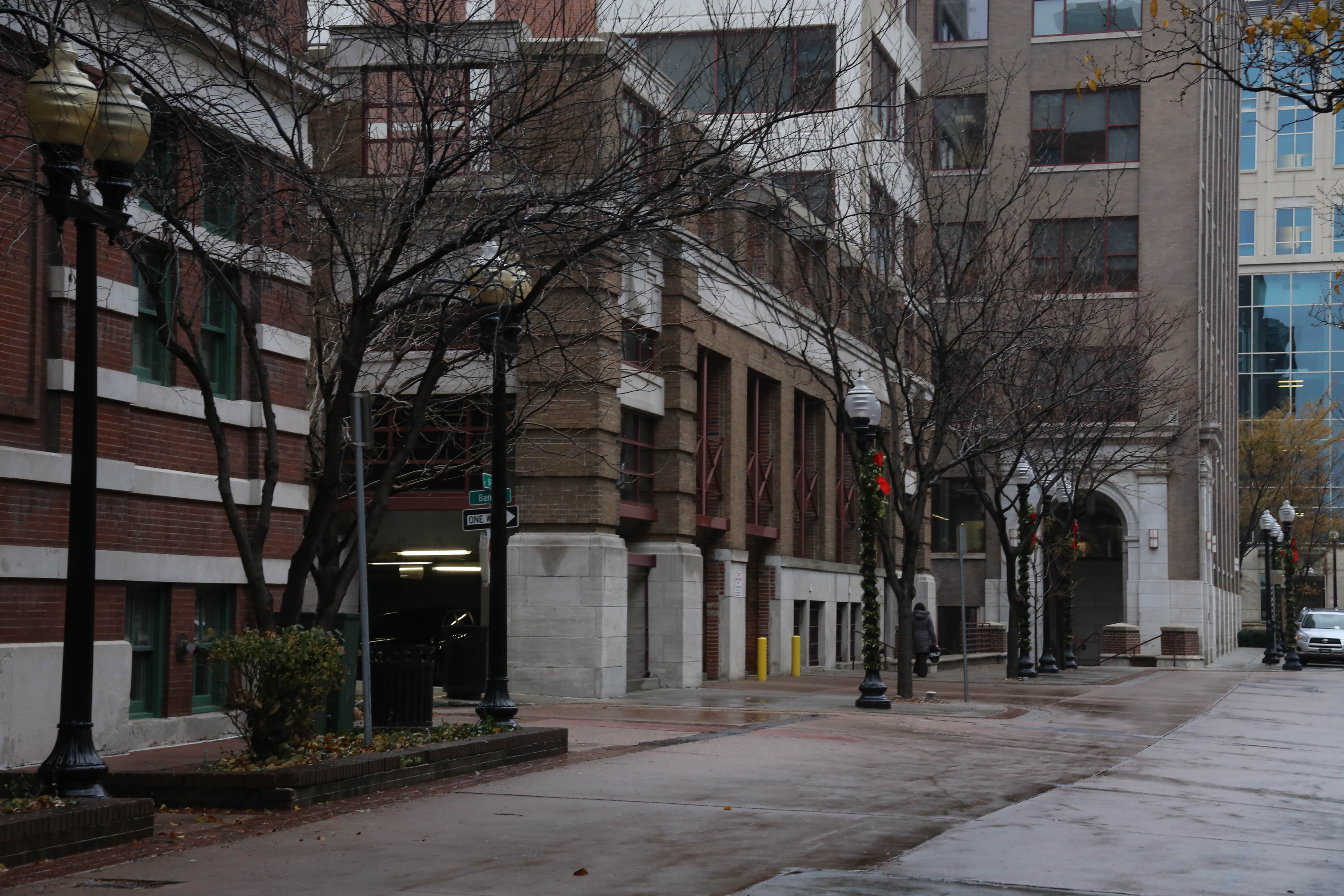 Garment District Parking